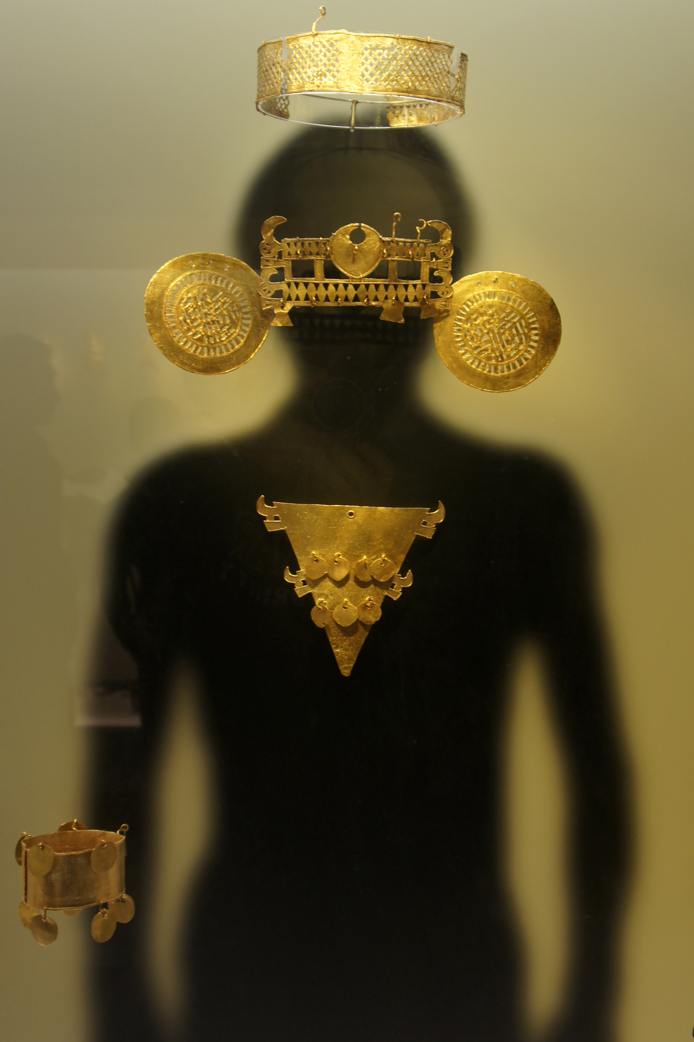 Gold Museum, Bogotá, Colombia